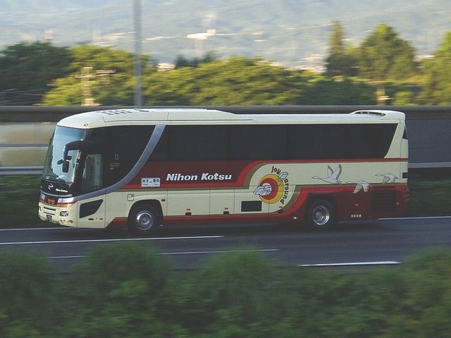 Nihon Kotsu "CAMEL" Hino ADG-RU1ESAA 2007.06.01 on Tomei Expway Photo by Cassiopeia_sweet.